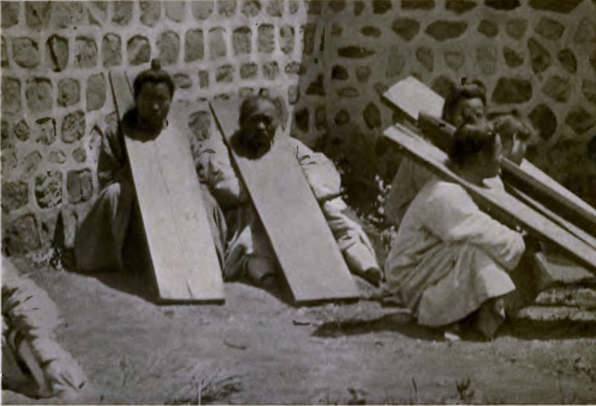 The passing of Korea (book)